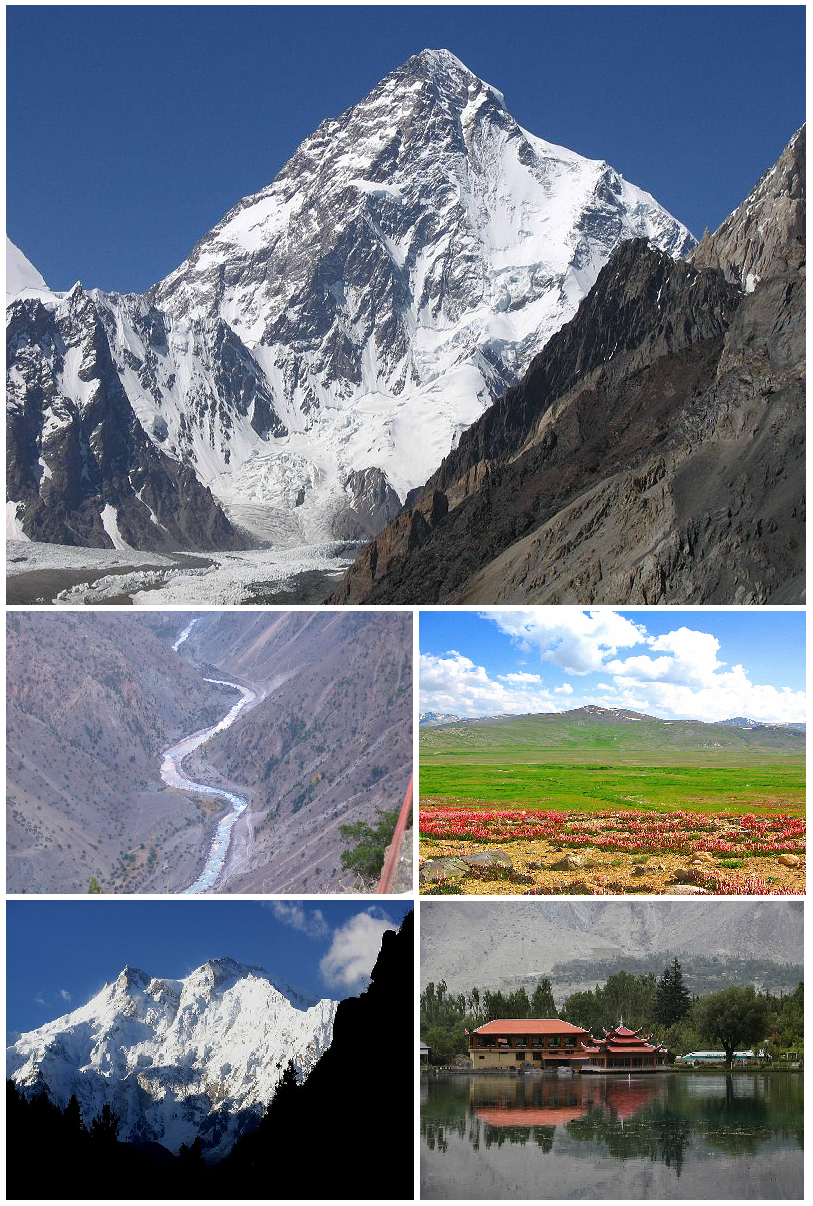 All Wikipedia Images - (Anti clock-wise) K2 - Kevin Mayea, cc-by-sa-3.0 Astore Valley - Shakeel Gilgity, cc-by-sa-3.0 Nanga Parbat - Daniel Martin, cc-by-sa-3.0 Shangrila resort, Skardu - Waqas Usman, cc-by-sa-3.0 Deosai Plateau - Kashiff, cc-by-sa-3.0